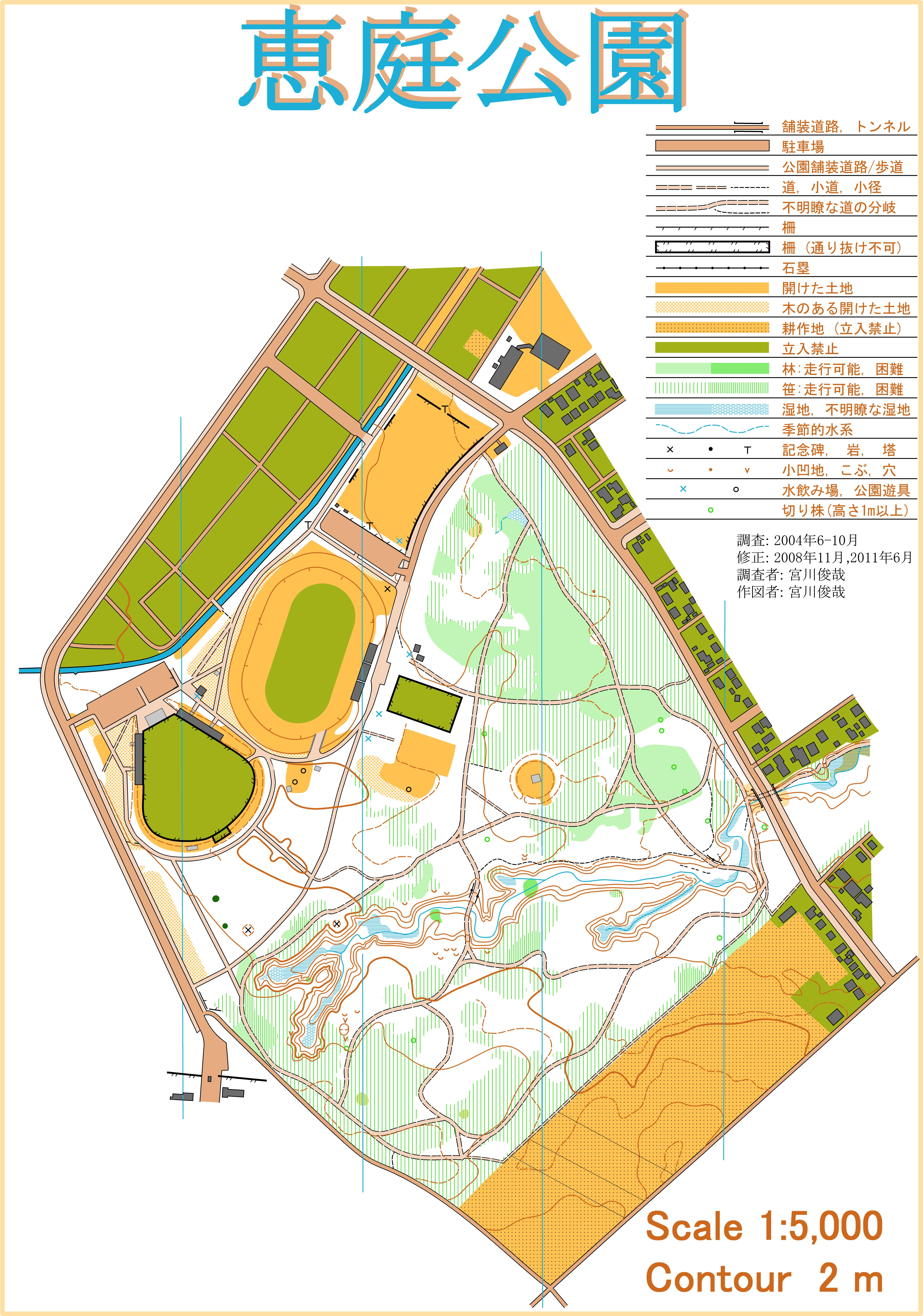 The orienteerng map of the ENIWA park, Eniwa Hokkaido JAPAN